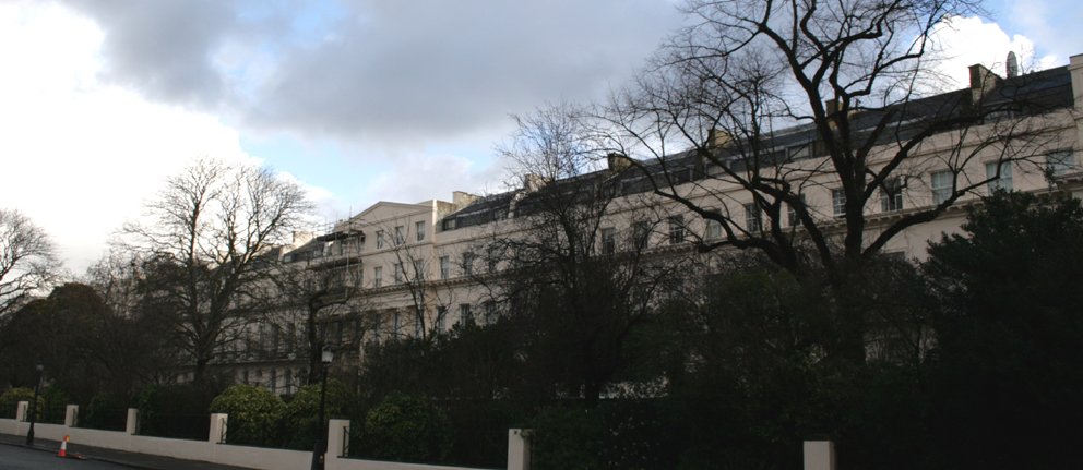 Chester Terrace, London.